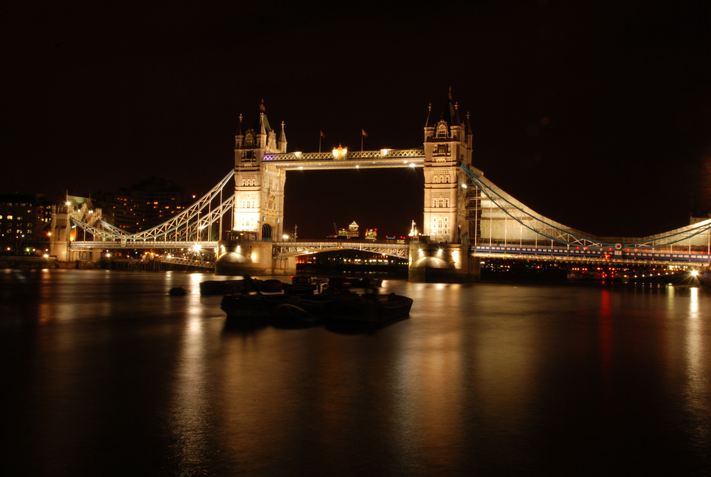 London's Tower Bridge